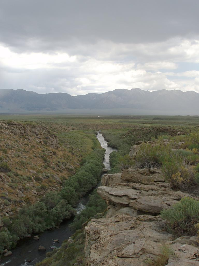 Mammoth Creek with the volcanic Glass Mountains in the distance, in the Long Valley Caldera, Eastern Sierra, Mono County, eastern California. Photo by Richard E. Ellis (